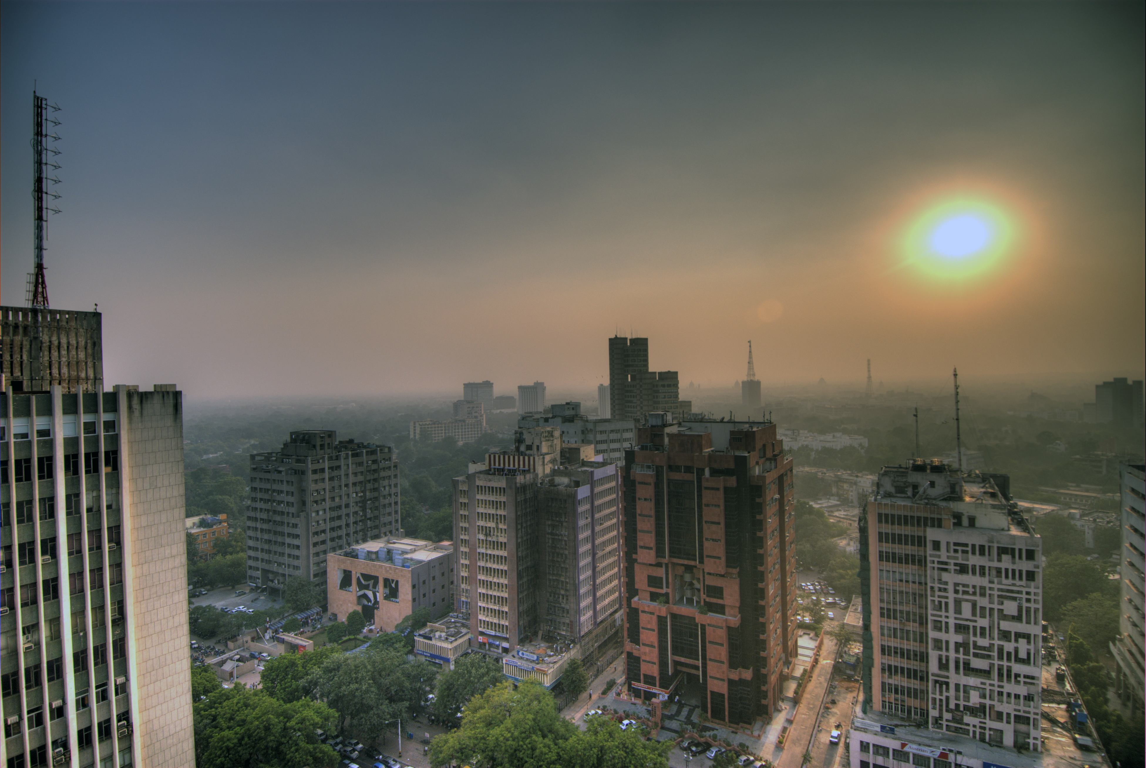 The sunsetting at Connaught Place in Delhi, India. Smog pollutes the skies of Delhi, India.